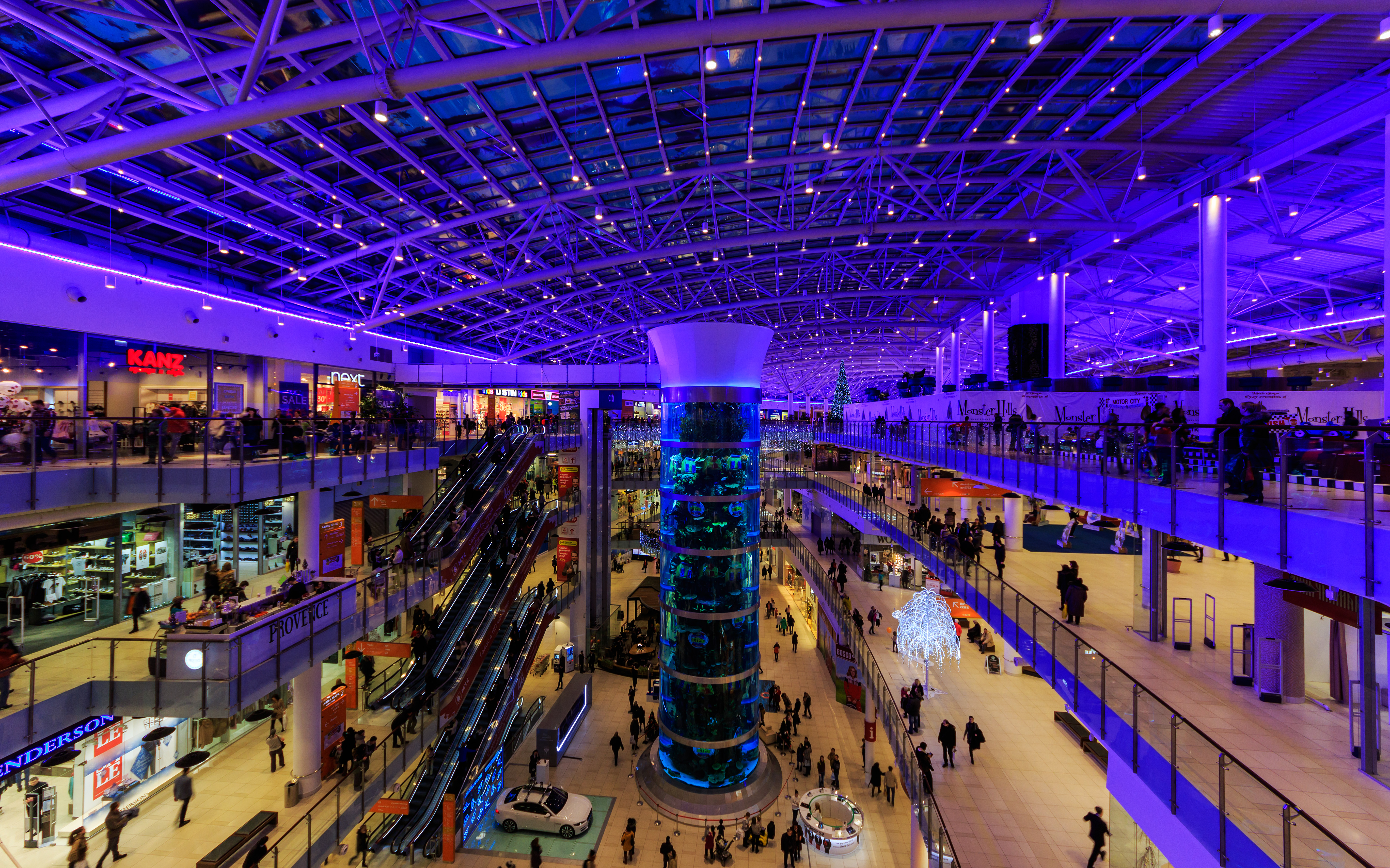 Interior of AviaPark mall in Moscow